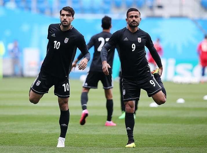 Iran national team training before 2018 FIFA World Cup match against Morocco